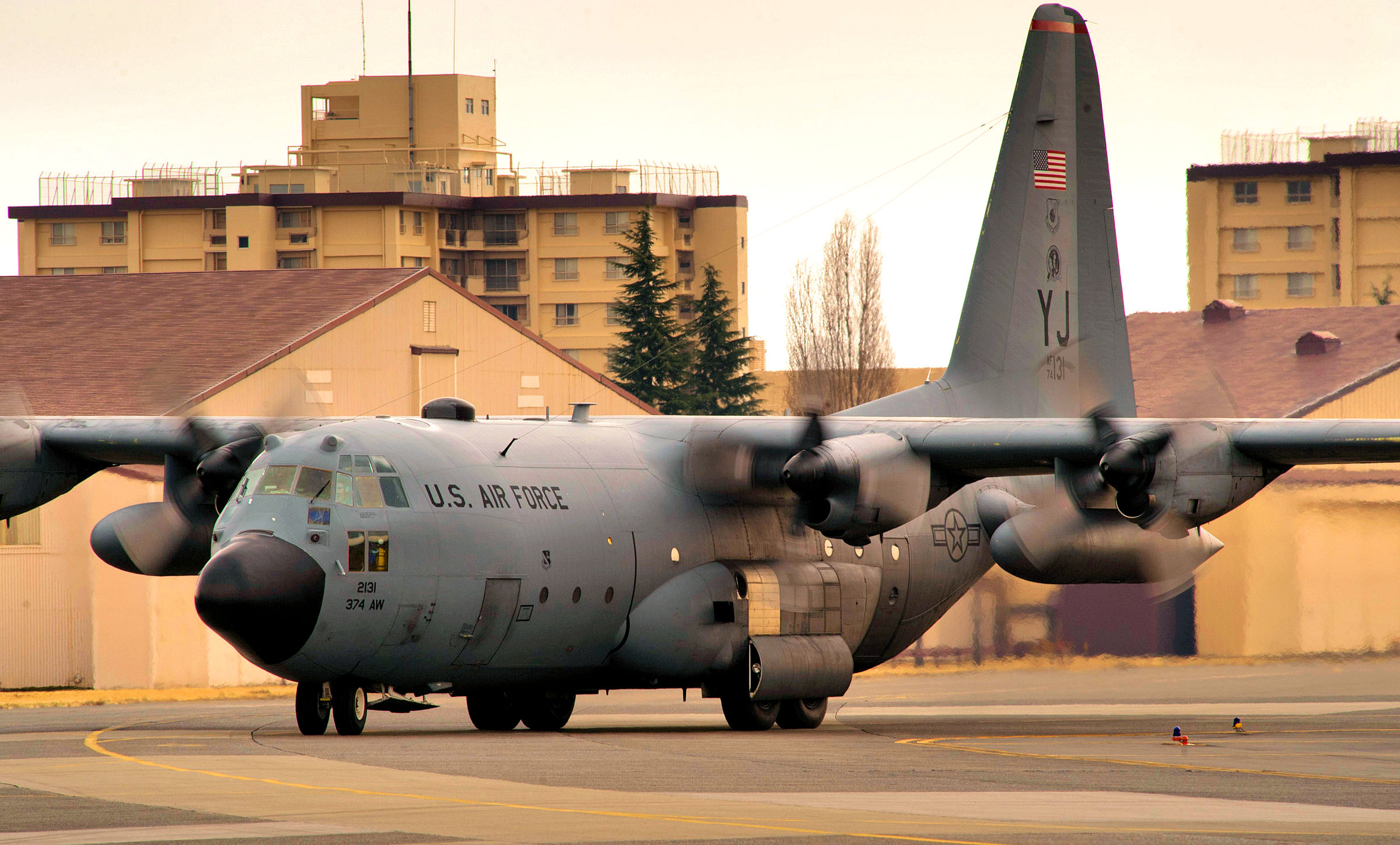 YOKOTA AIR BASE, Japan -- A C-130H Hercules taxis to park on the east side of the flightline at Yokota Air Base, Japan, March 25, 2011. (U.S. Air Force photo/Staff Sgt. Samuel Morse)